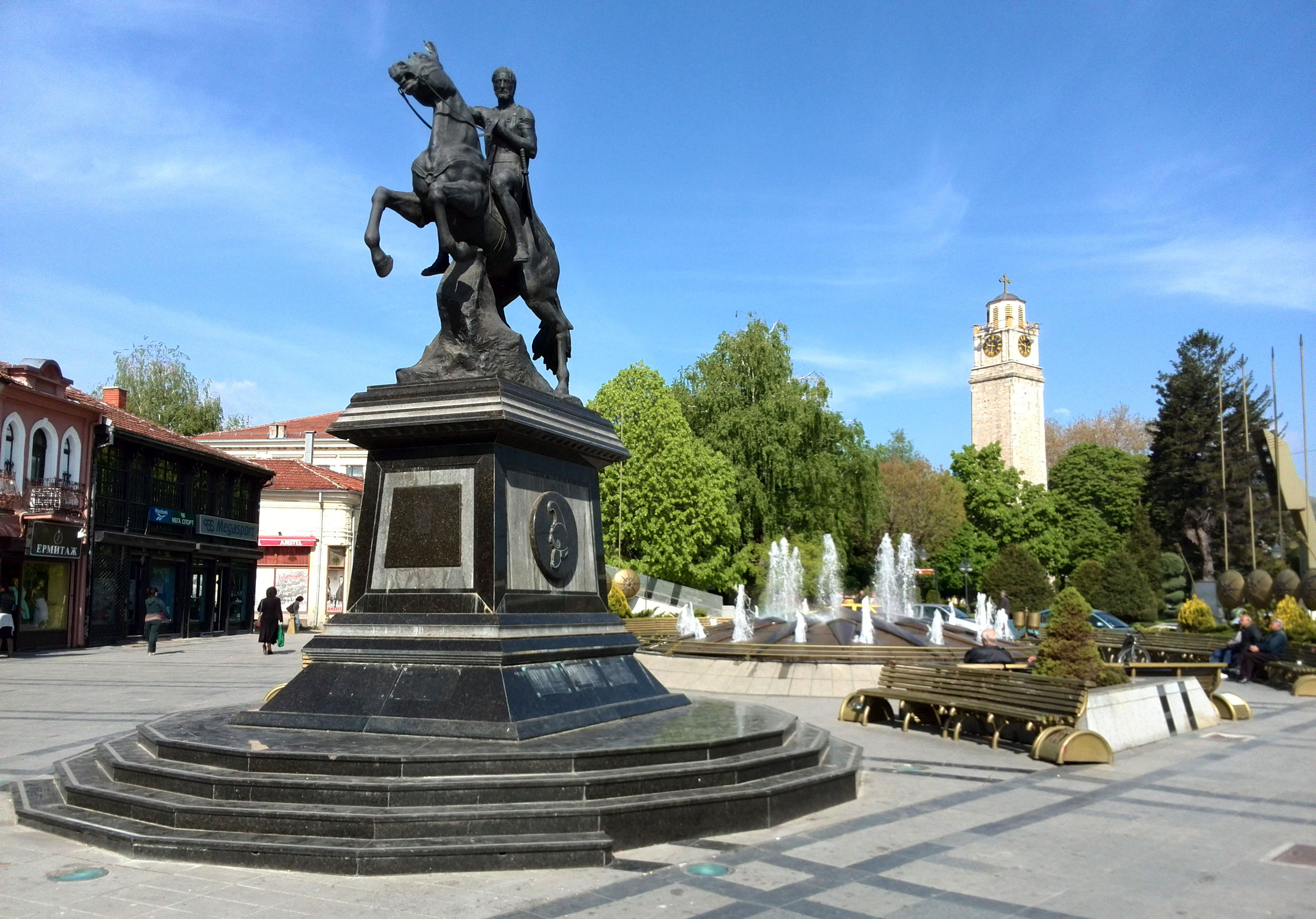 Phillip II Macedonian and clocktower in background. Bitola, Macedonia. Српски (ћирилица): Филип II Македонски и Сахат кула у Битољу.